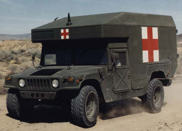 US Army Ambulance